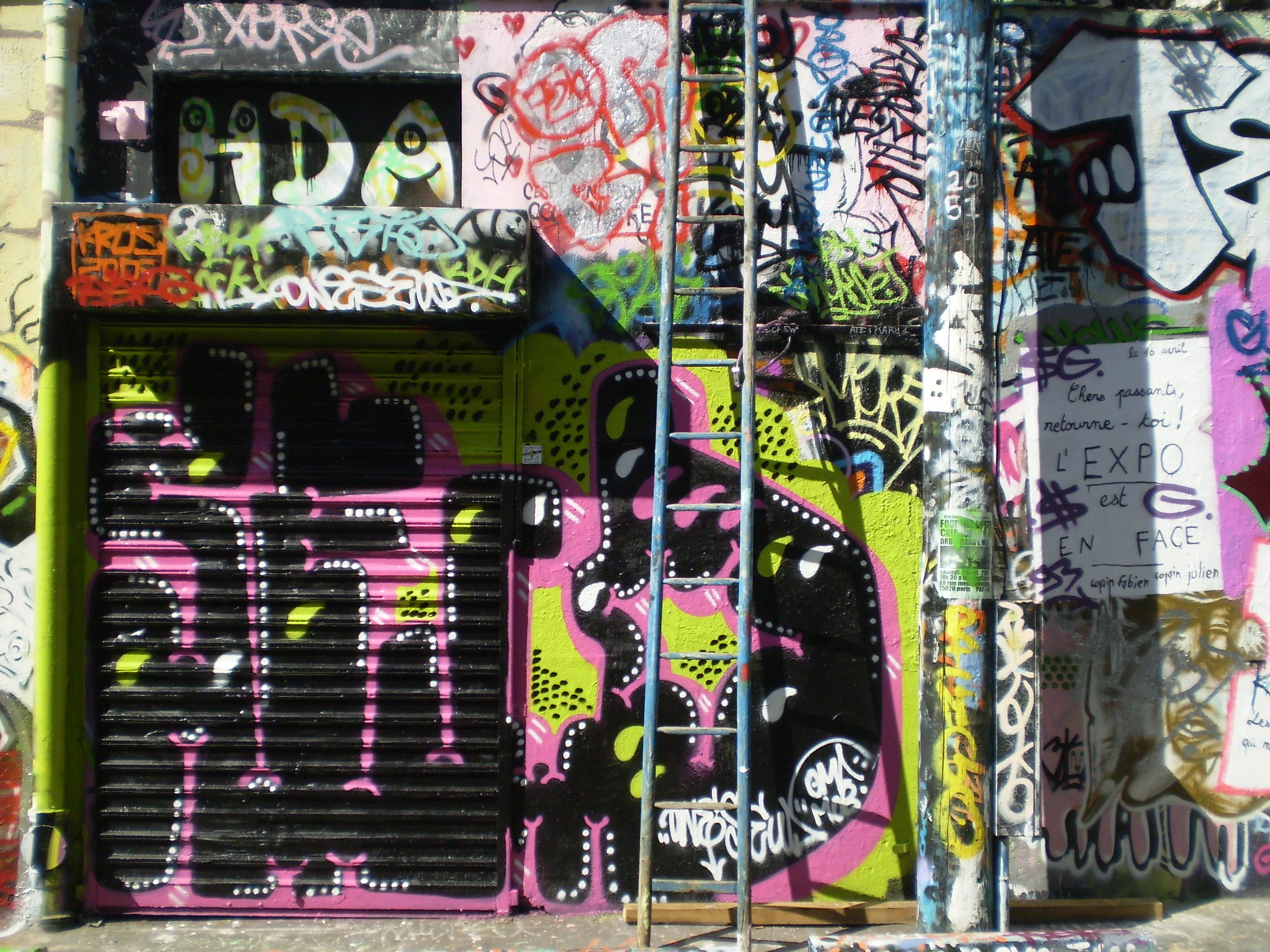 Graffiti at Belleville, Paris, France.